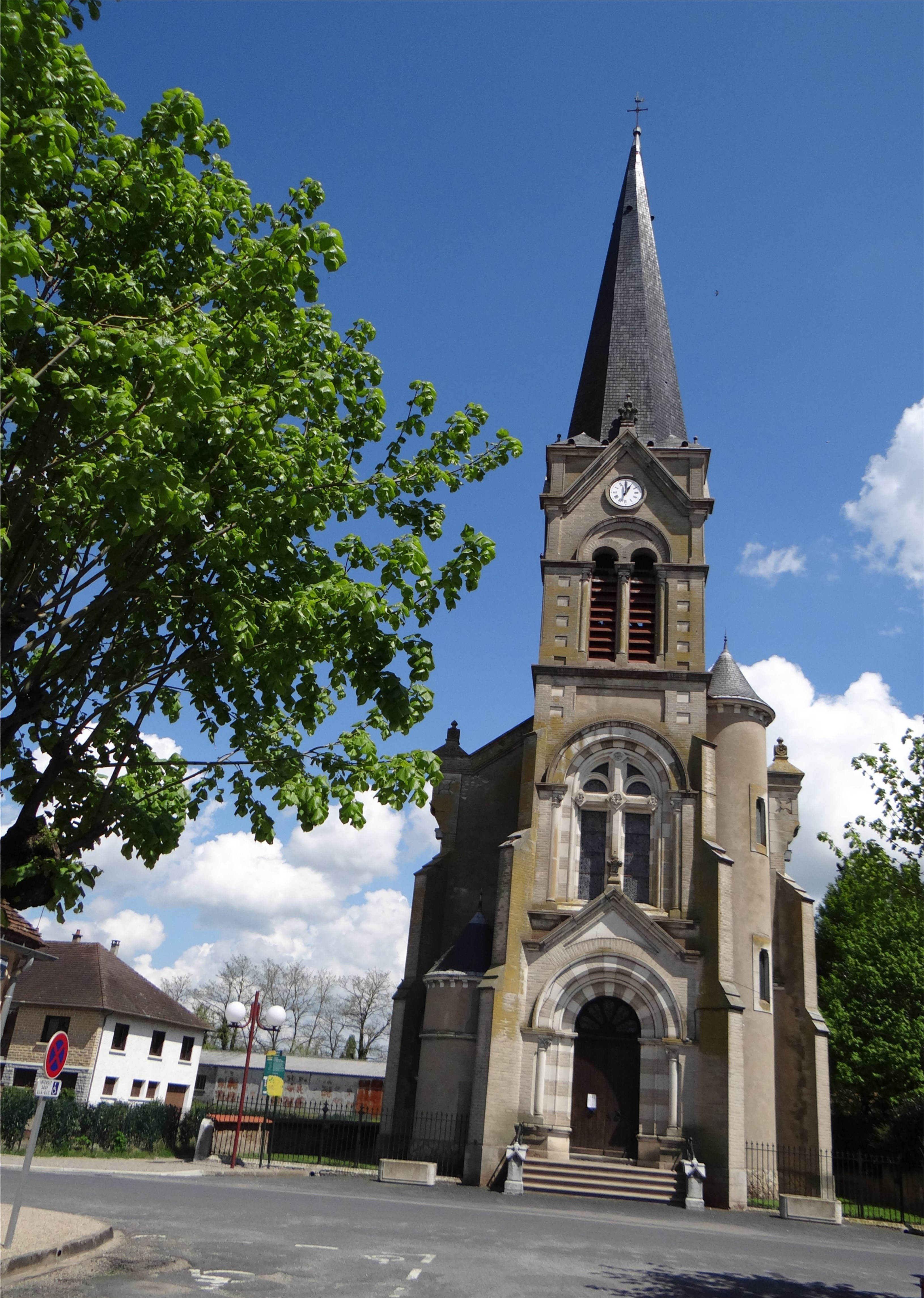 Church of the early twentieth century, Villeneuve-sur-Allier, Allier, France